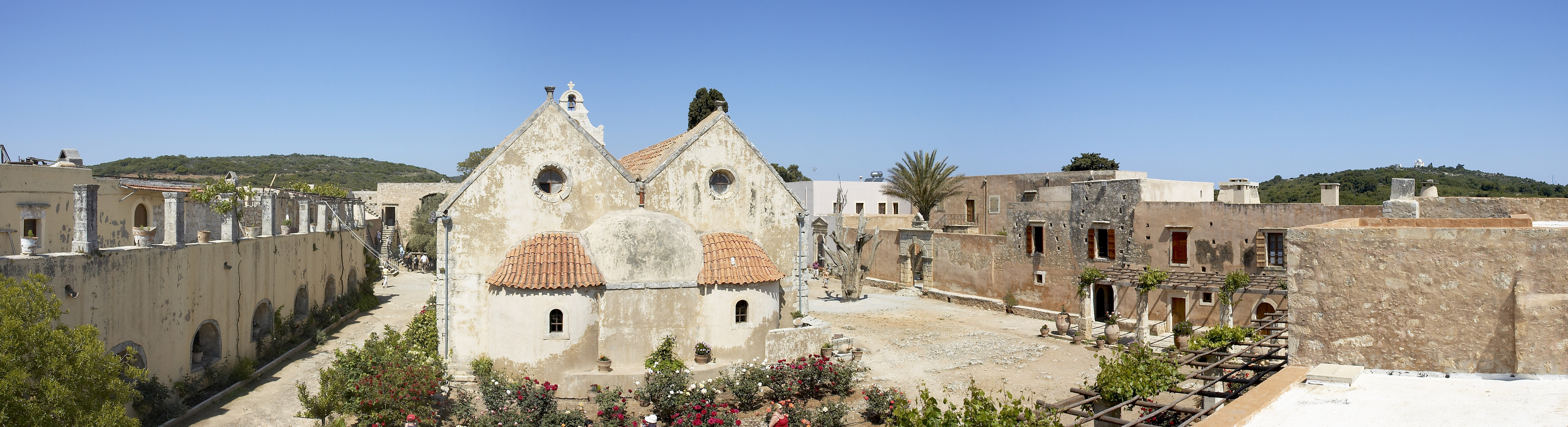 Arkadi Monastery / Moni Arkadiou